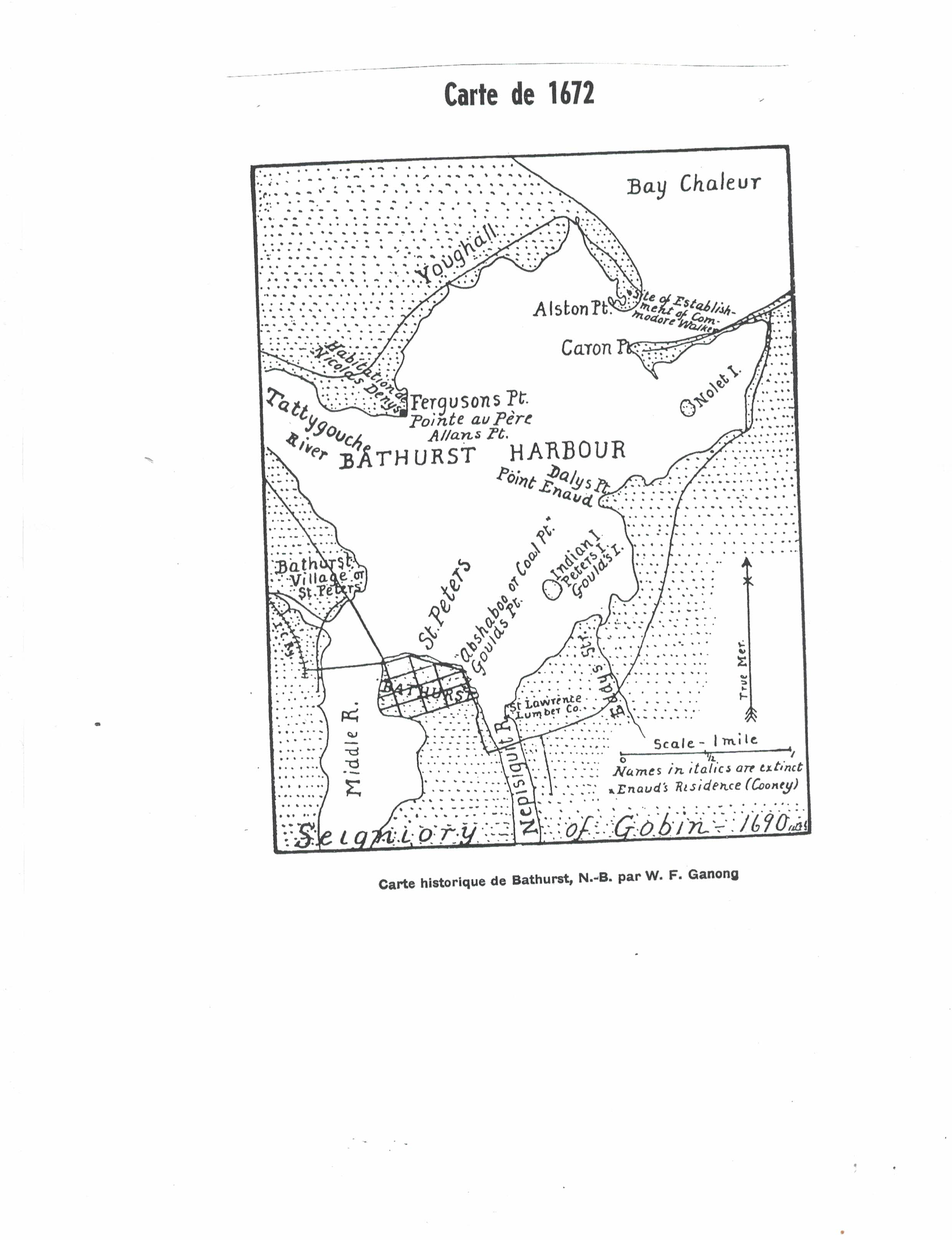 Map of Bathurst Harbour in 1672, drawn by William Francis Ganong.